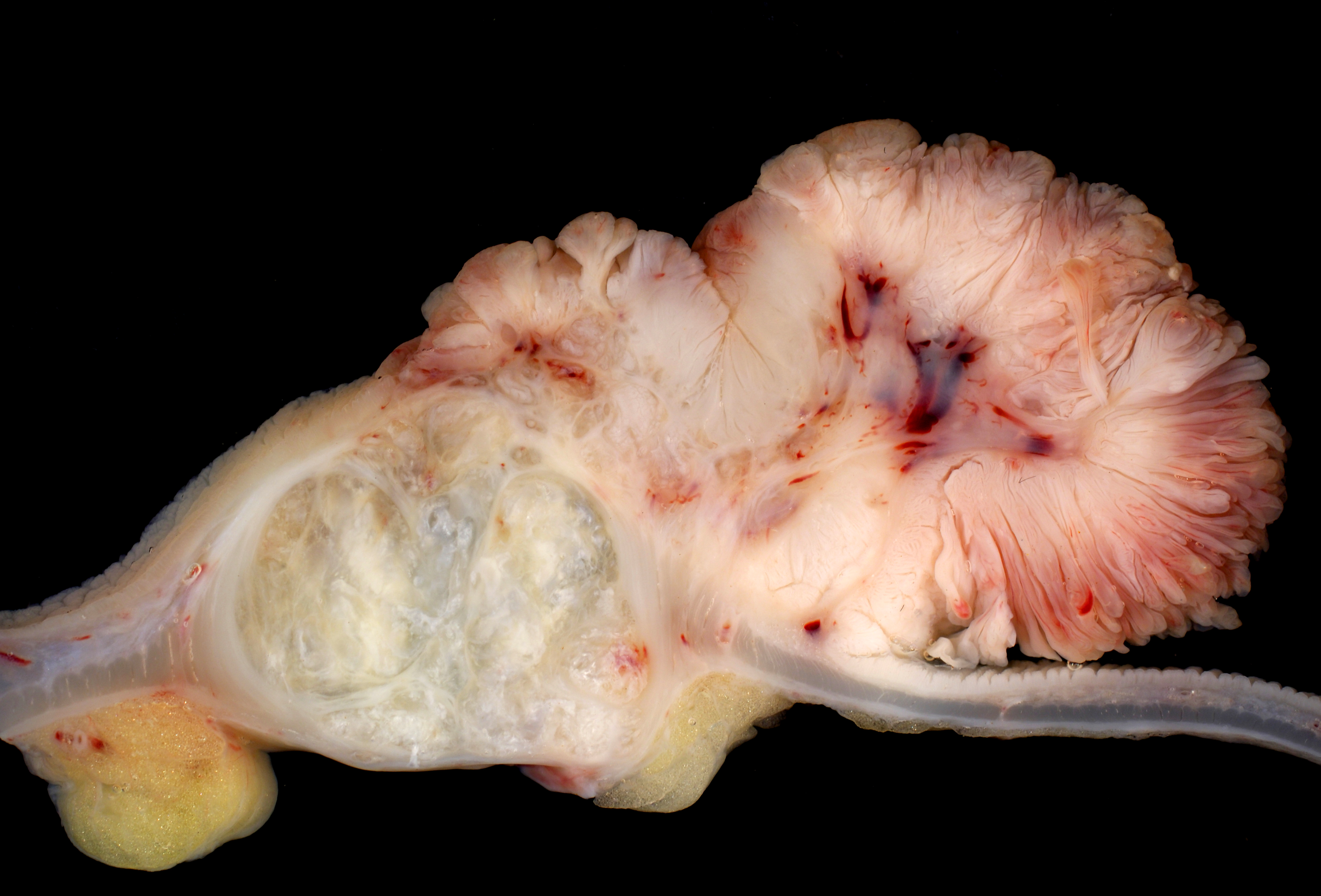 The is the same subject shown in the previous image, except that it is immersed in alcohol. Although water can also be used, alcohol is easier to work with. Since tissue has a higher specific gravity than alcohol, the subject won't float to the top of the liquid. Also, tiny bits of tissue, which would float around in water and cloud the image, sink right to the bottom and stay out of the way. This makes alcohol seem "clearer" than water.